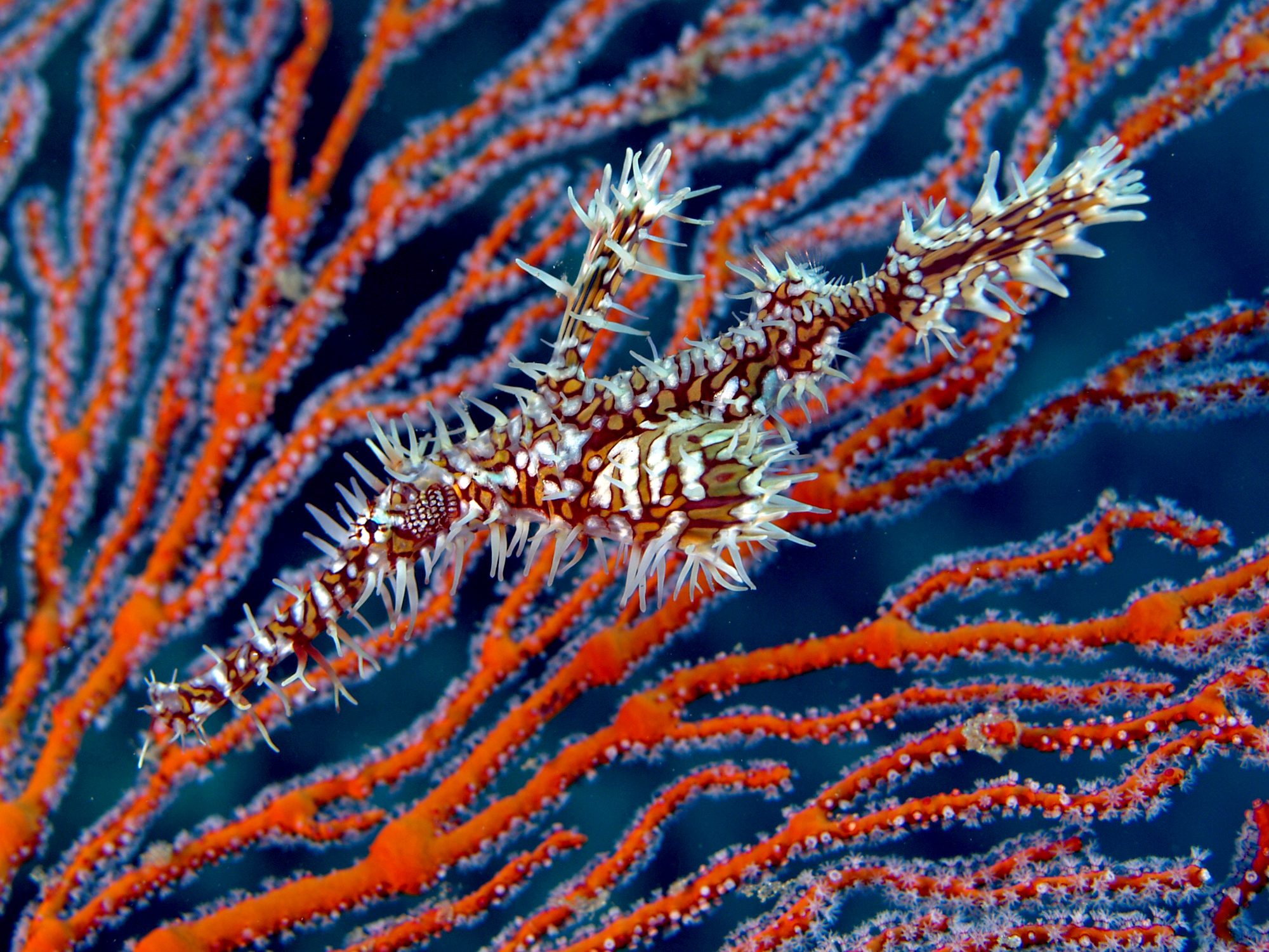 Solenostomus paradoxus Harlequin ghost pipefish